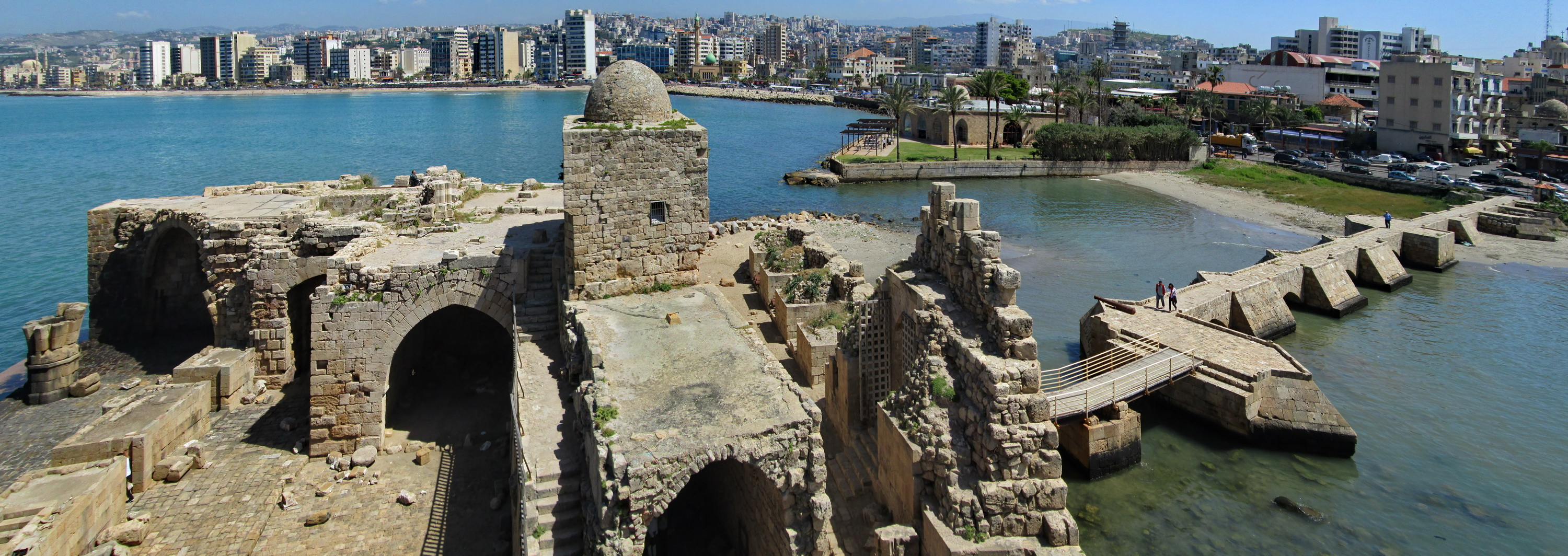 Sidon panorama view. The crusader castle Qalat al-Bahr (13th century) in the foreground. Picture taken March 2013